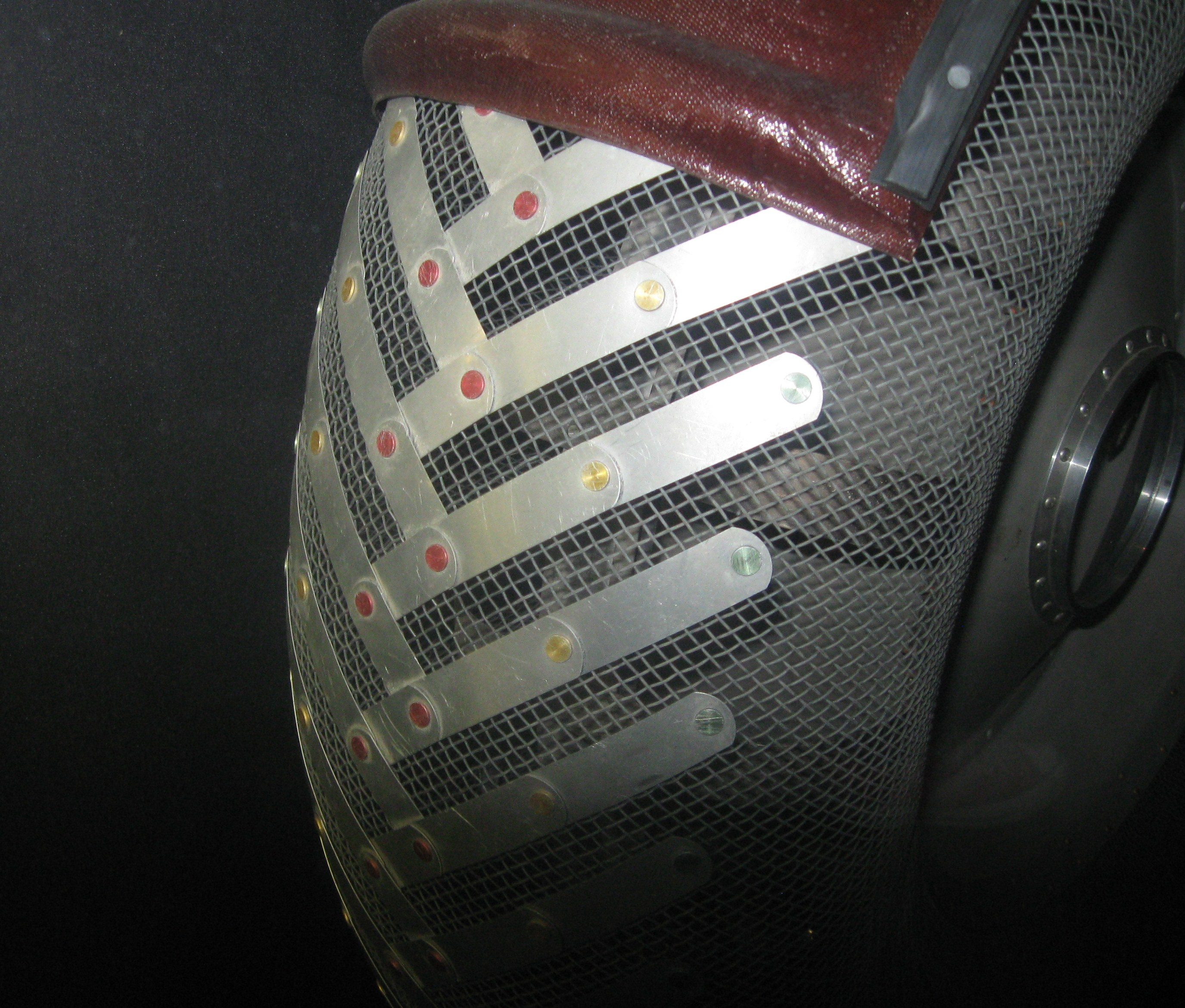 A close-up photograph showing the chevron shaped treads on a wheel designed for an Apollo Lunar Roving Vehicle on display in the Apollo to the Moon exhibition at the National Air and Space Museum in Washington, D.C.